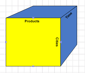 OLAP Cube illustration